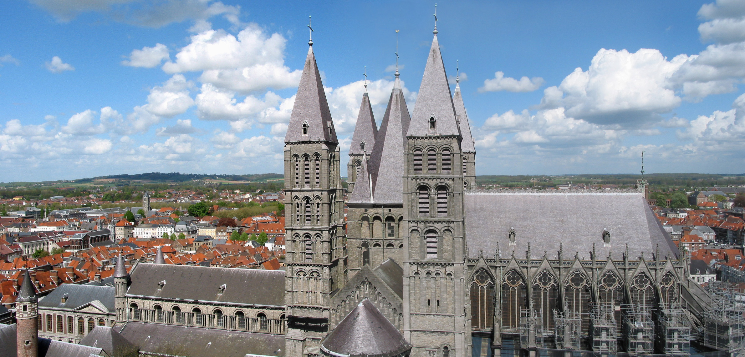 Tournai (Belgium): the romanesque nave and five towers (XII century) and the gothic choir (XIII century) of the Notre-Dame (Our Lady) cathedral.